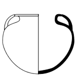 GIF - Chytra